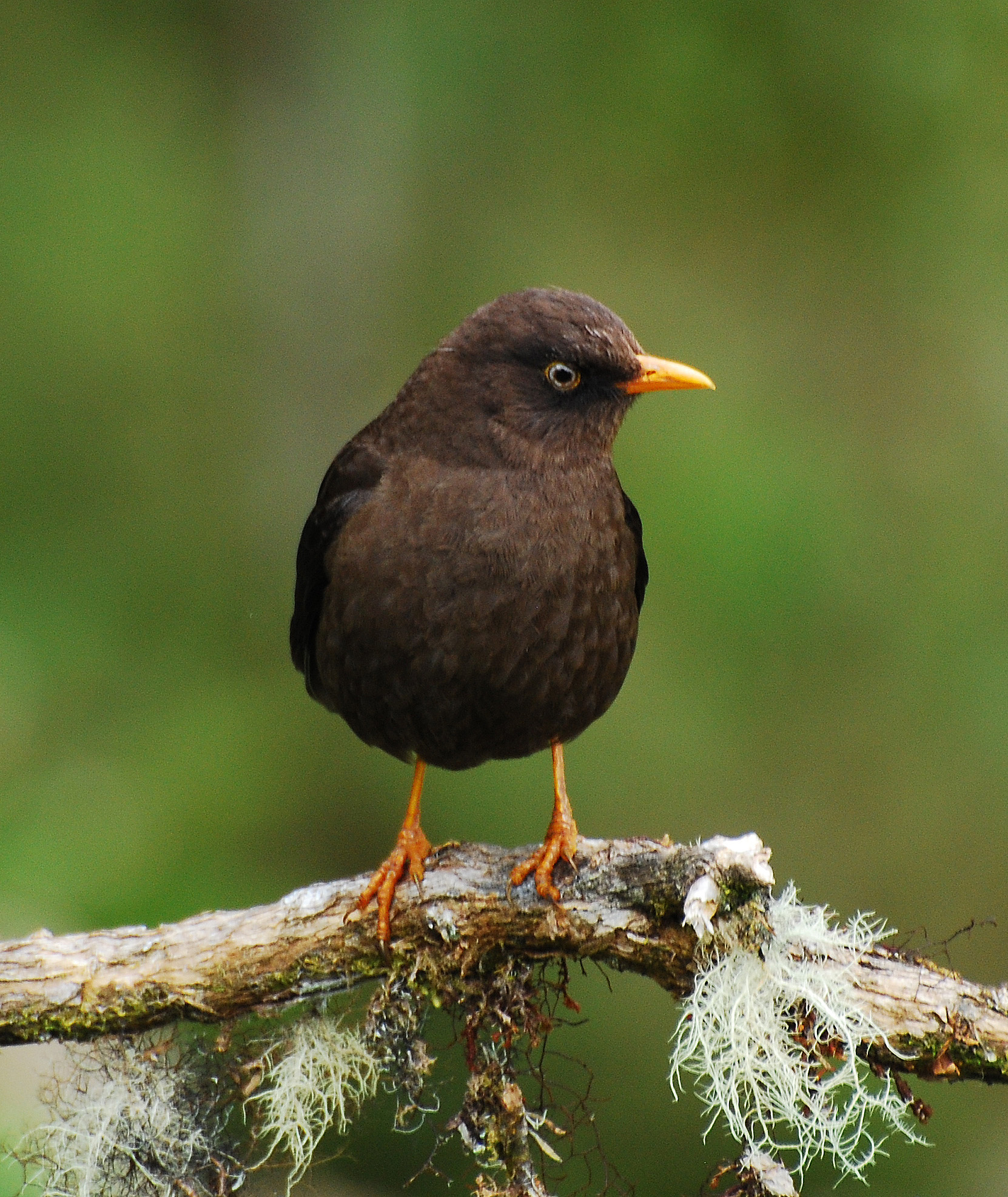 Sooty Robin at the Mirador de Quetzals, Costa Rica, 080226. Turdus nigrescens.